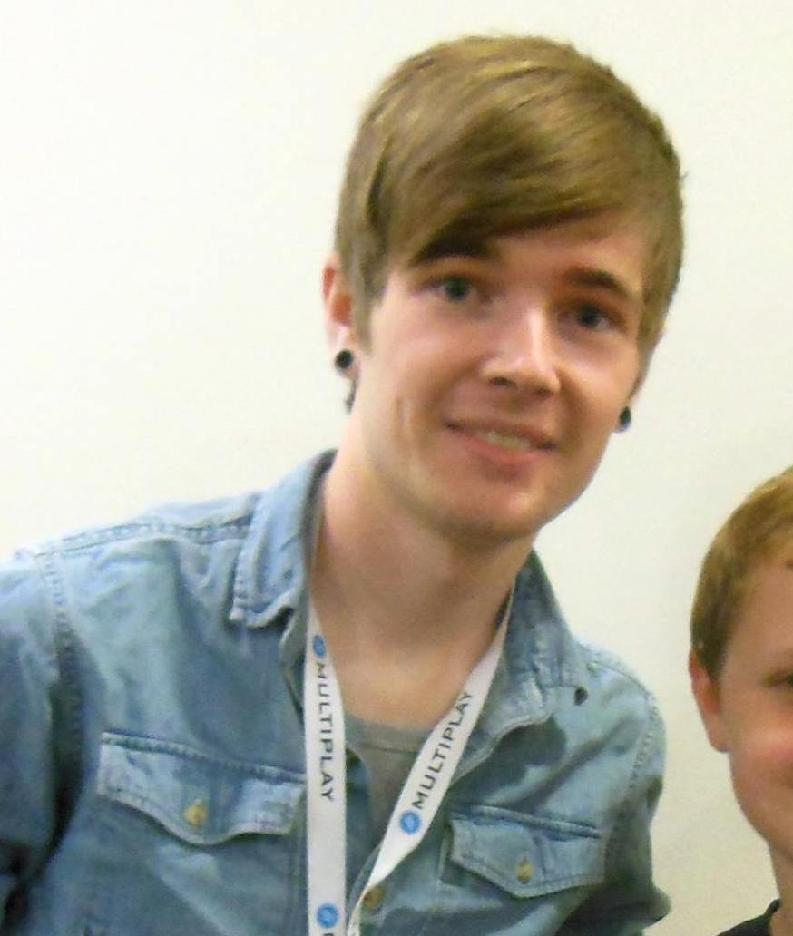 Picture of well-known YouTuber Dan Middleton, taken at a convention in 2014. I took the photo myself (the right ear in shot belongs to my son).